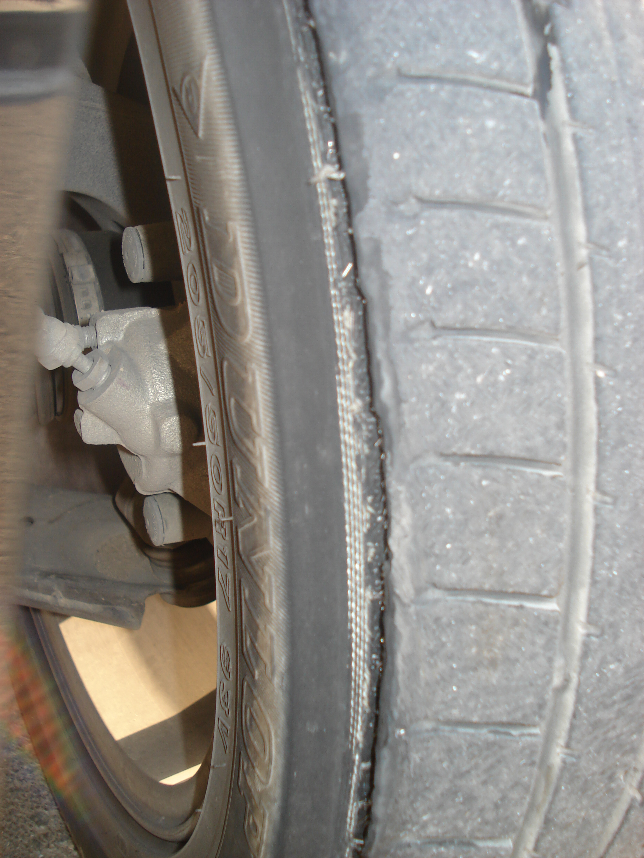 Problem of premature wear on the tires of the Mazda 5.